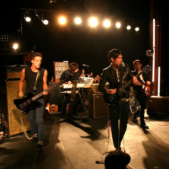 Bravery Photo